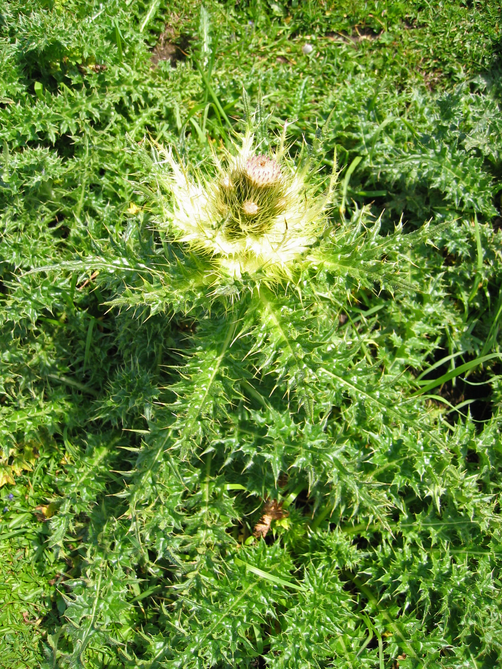 Cirsium_spinosissimum, Großer Pyhrgas ~ 2300m, Upper Austria, Austria